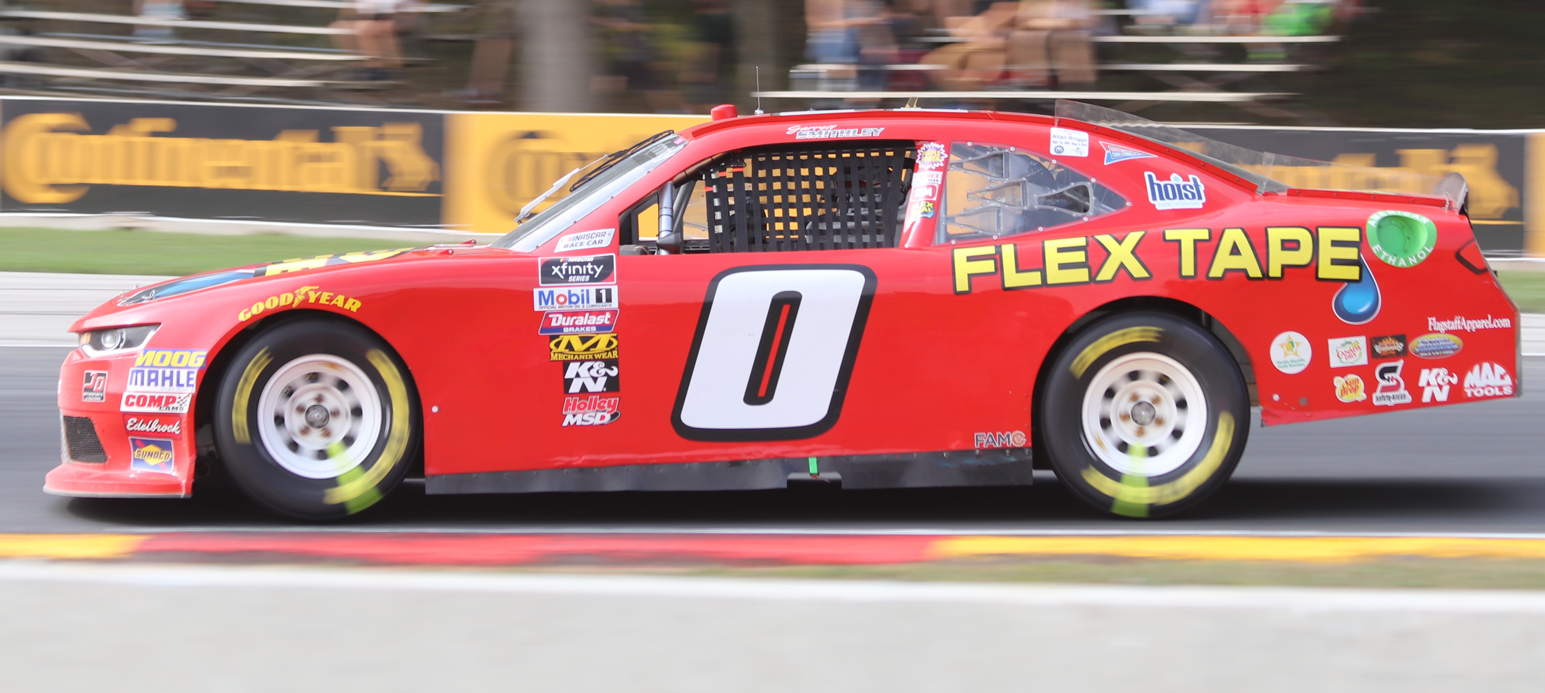 The Chevrolet Camaro of Garrett Smithley at the NASCAR Xfinity Series Johnsonville 180.